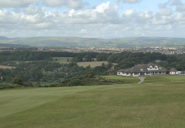 A view northwards from Southerndown golf course Looking roughly northwards from a spot on a public footpath which crosses several fairways of this golf course on Ogmore Down. Beyond the clubhouse areas of deciduous woodland around Merthyr Mawr are seen. Further away still, parts of Bridgend - about four kilometres distant - can be made out.